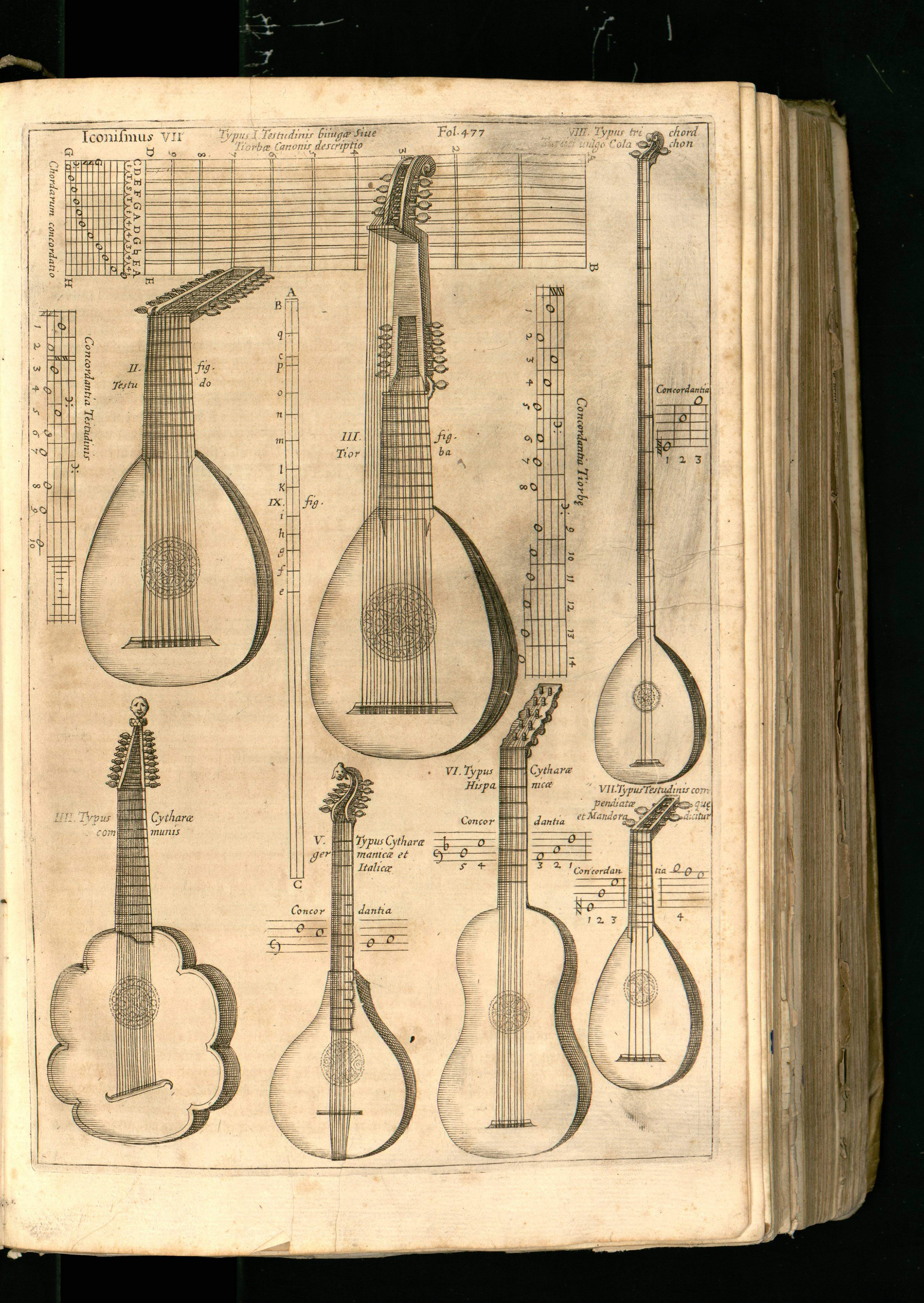 Athanasius Kircher: Musurgia universalis sive ars magna consoni et dissoni [Tome 1] (1650)